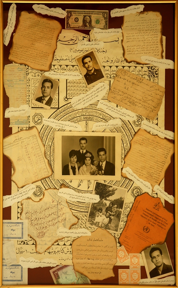 This collage is made entirely of pieces of my family album and found objects that I find as I live my everyday life.Of course,I keep my eye out for things: bits of unusual typography, a ticket handed to you in some foreign city, a poster peeling from a wall.